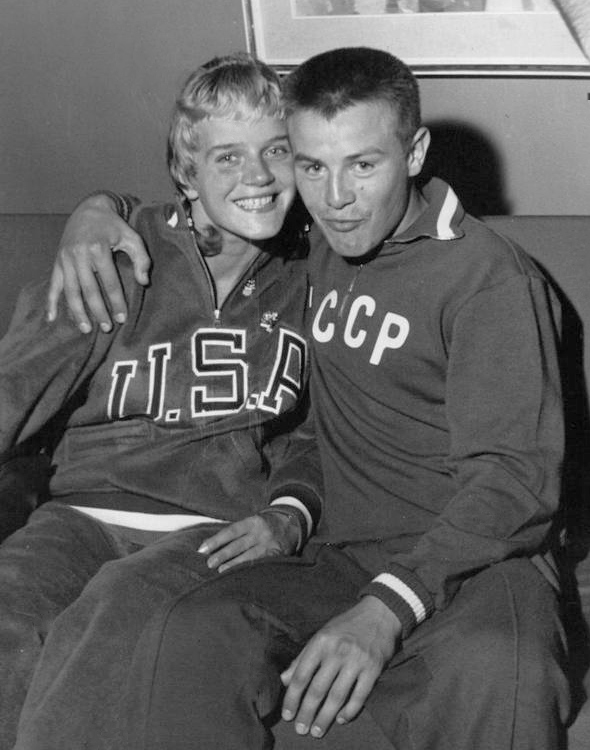 Doris Fuchs and Boris Nikonorov at the Rome Olympics